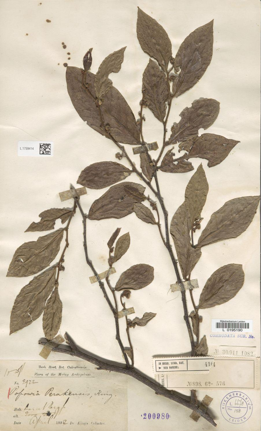 Popowia perakensis King (type of) - Popowia fusca King (species)